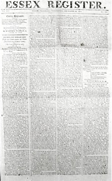 Newspaper, Salem, Massachusetts, USA Further information: American Antiquarian Society. Catalog.